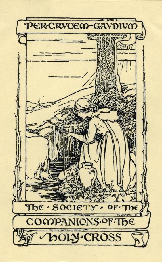 Pictorial Bookplates. Subject: Women; Water; Crosses. Subject - Corporate Name: Society of the Companions of the Holy Cross.